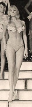 Hellen Grant- vedette argentina